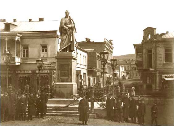 Monument to Count Vorontsov. 1890